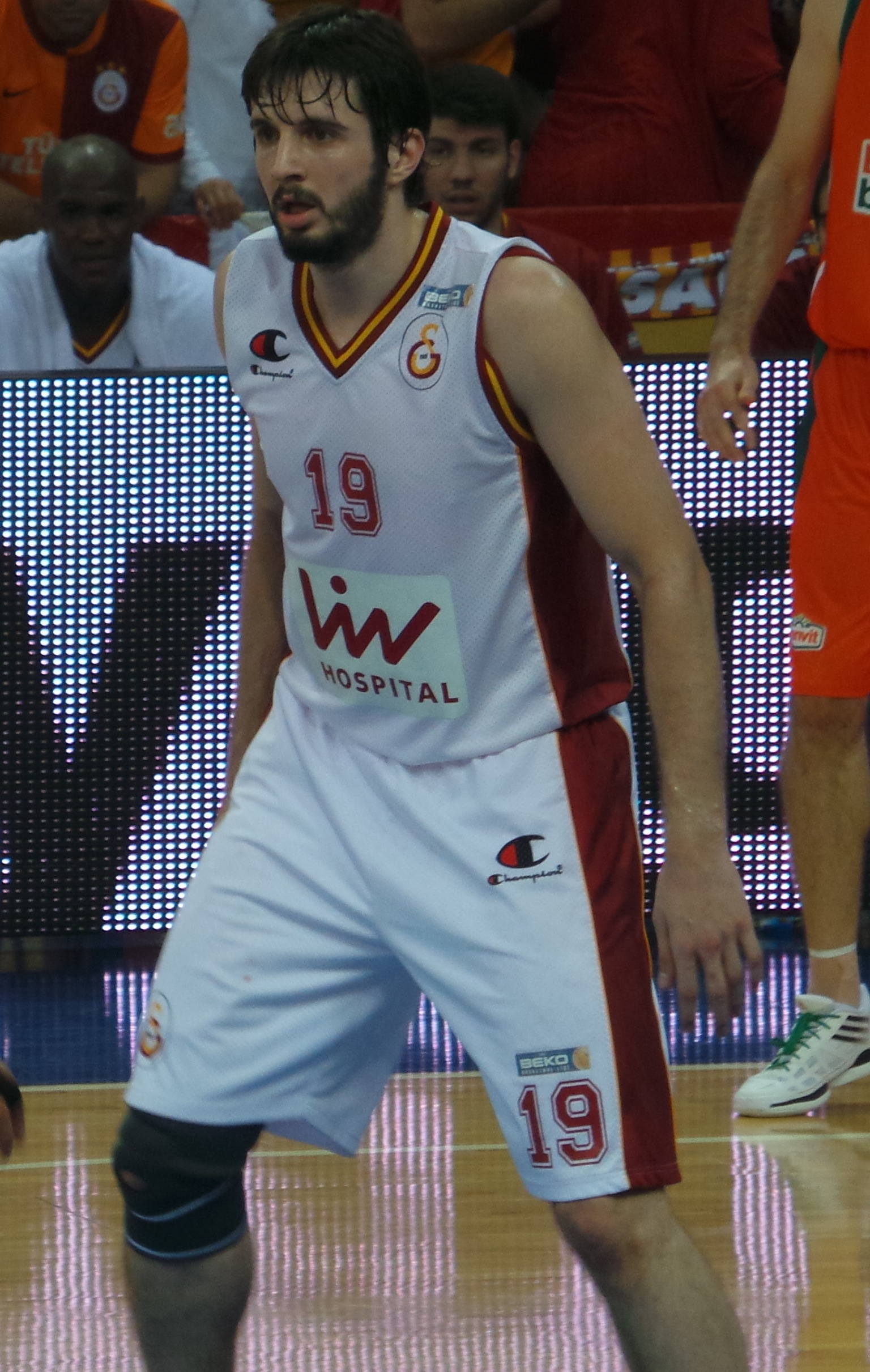 Furkan with GS against Banvit